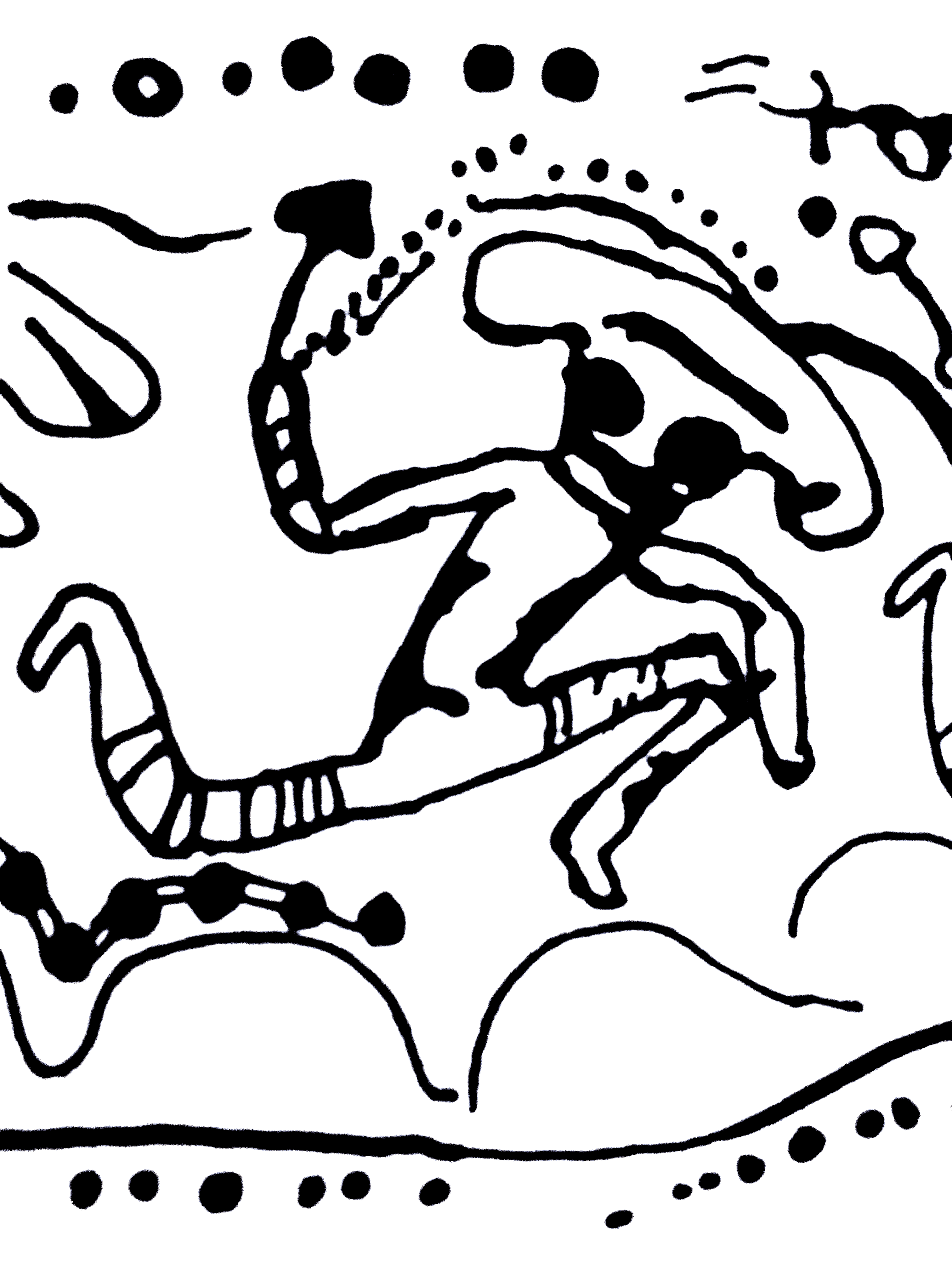 I redrawn the rock art written by ancient people. Fig 34 on [1] . I abandon my own copyright.